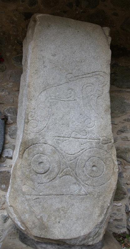 Dyce Symbol Stones, Dyce, Aberdeenshire, Scotland - Dyce 1